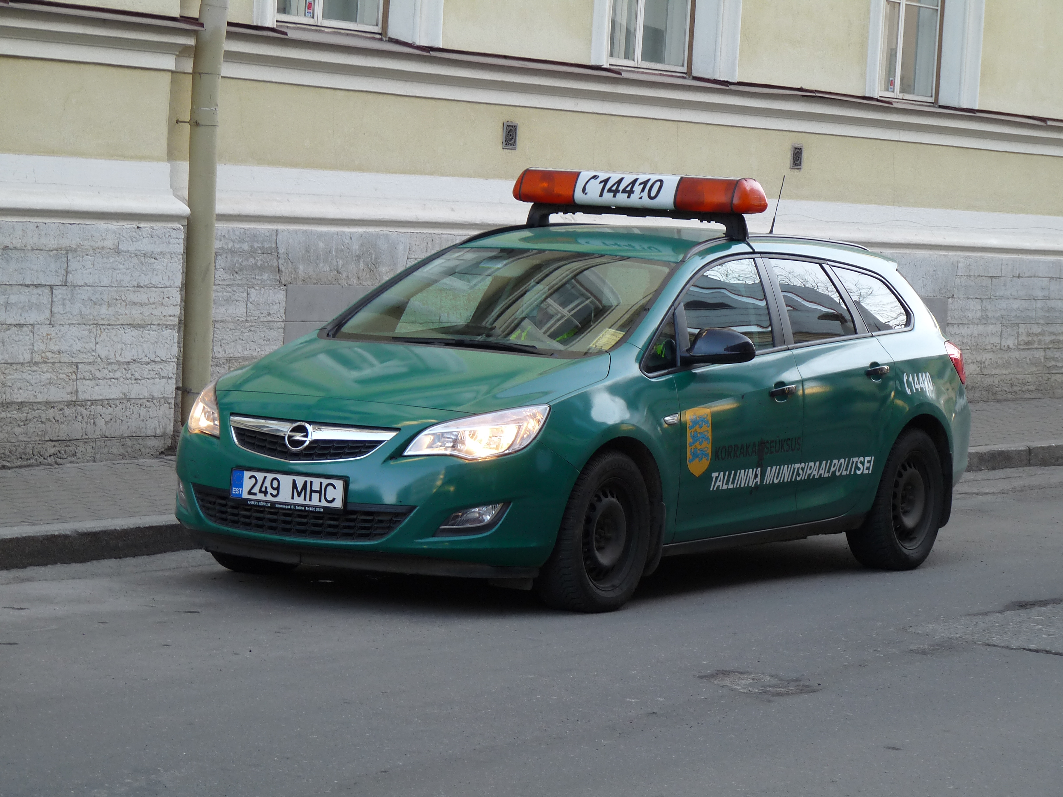 Municipal police of Tallinn, Estonia.